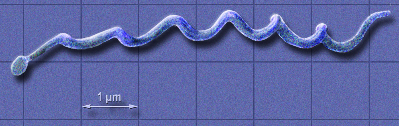 Borrelia drawing (Borrelia burgdorferi) ; Borrelia is a genus of bacteria of the spirochete phylum. It causes borreliosis, a zoonotic, vector-borne disease transmitted primarily by ticks and some by lice, depending on the species. There are 36 known species of Borrelia.